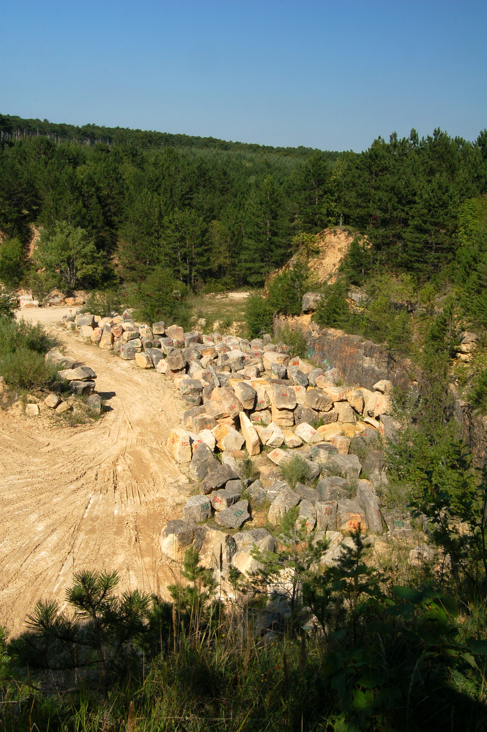 Symposion Lindabrunn, quarry. Lindabrunn, Lower Austria